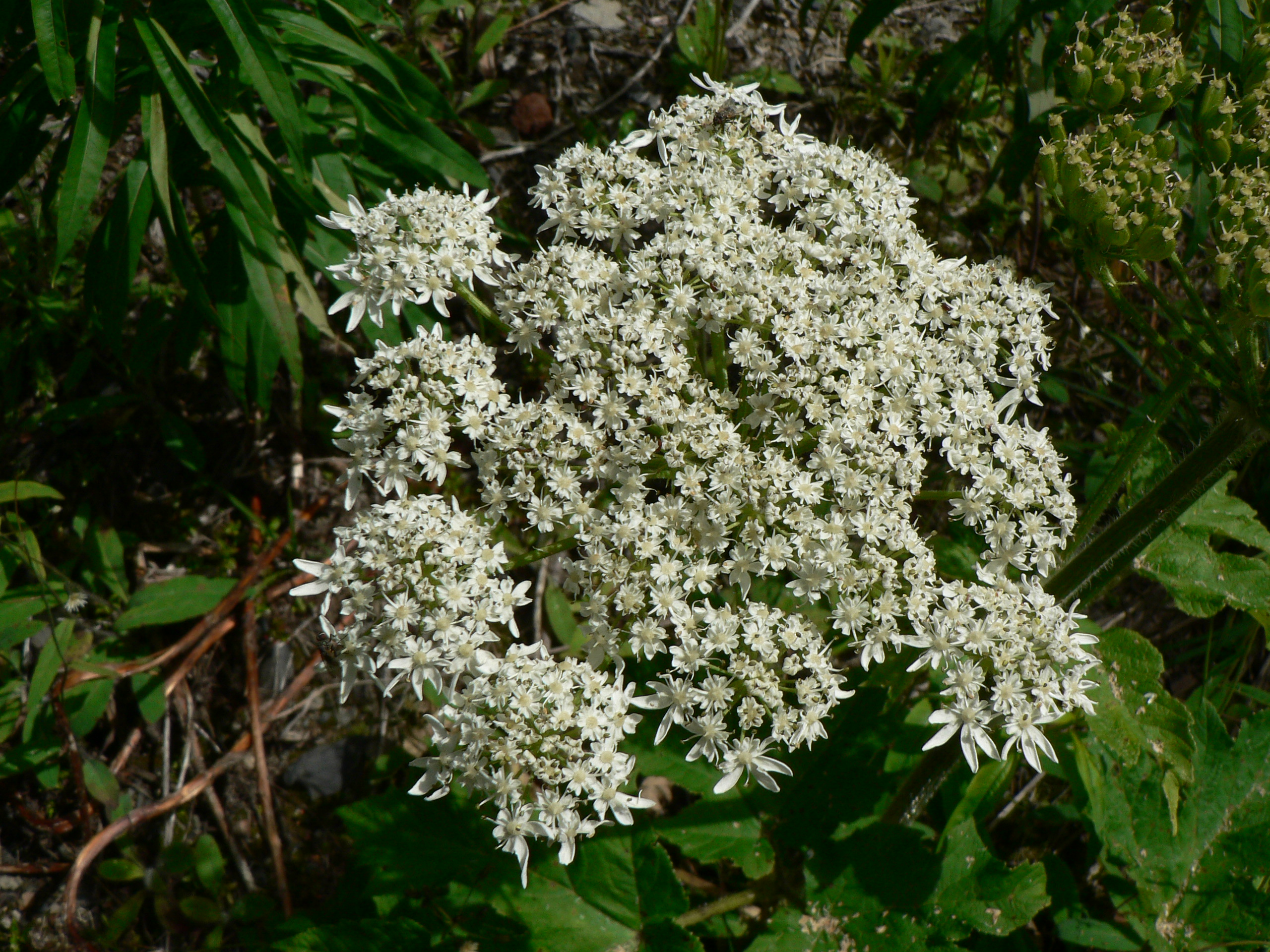 Common Cow-parsnip, American Cow-parsnip